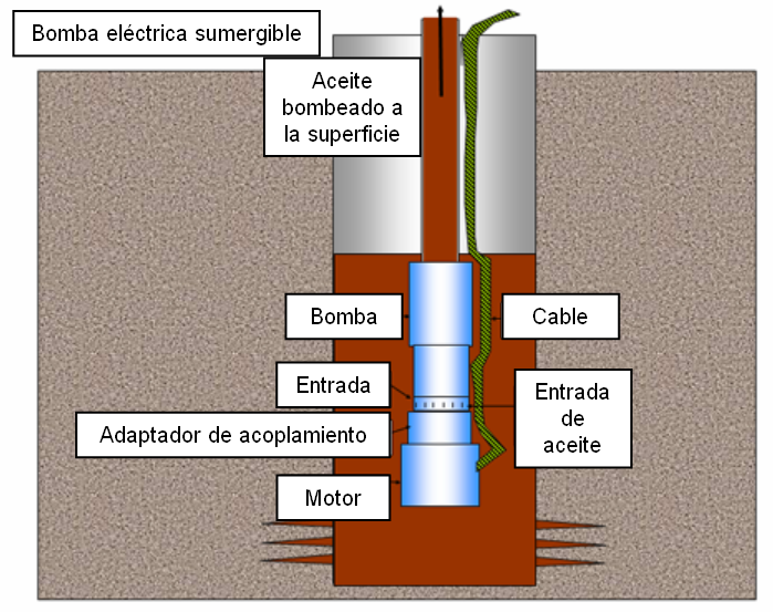 Diagram of an Electrical Submersible Pump.